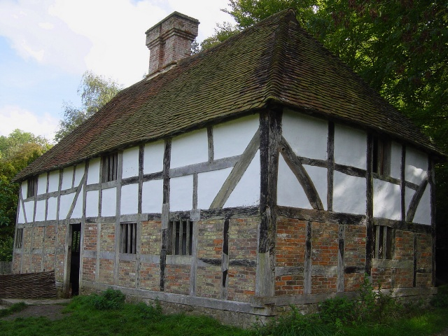 Pendean, a timber-framed early Jacobean farmhouse with brick nogging to the ground floor. It was built at West Lavington, near Midhurst, Sussex. According to dendrochronological evidence the timbers used to build the house were felled in 1609. The house was dismantled in 1975 and re-erected at the Weald and Downland Museum at Singleton.